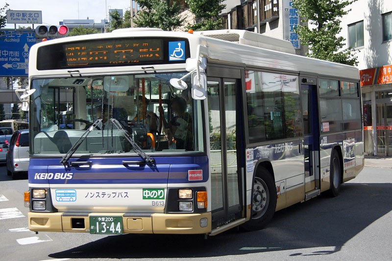 Keio Bus Chuo's route bus (Car No.B20613 / Hino Blue Ribbon II PJ-KV234L1 / J-BUS body) in Fuchu, Tokyo, Japan